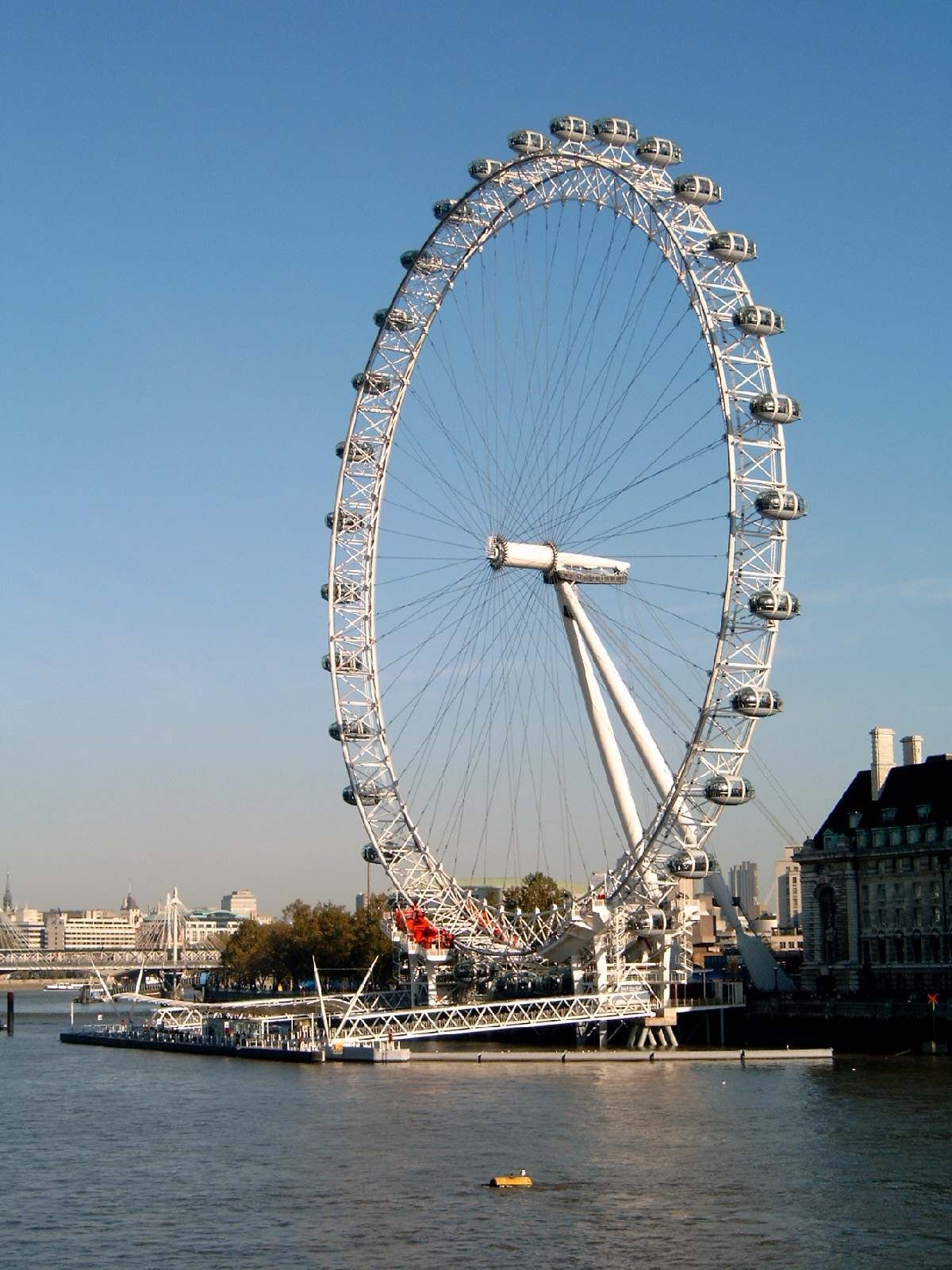 This picture was taken by me in April 2005